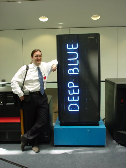 Public domain per original source at [1].